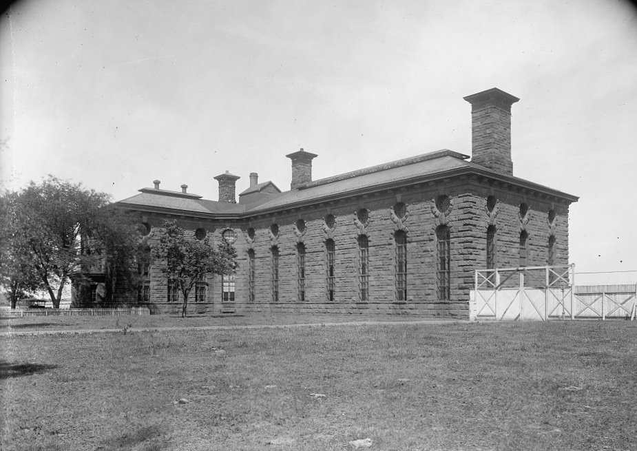 District Jail, Wash. D.C.